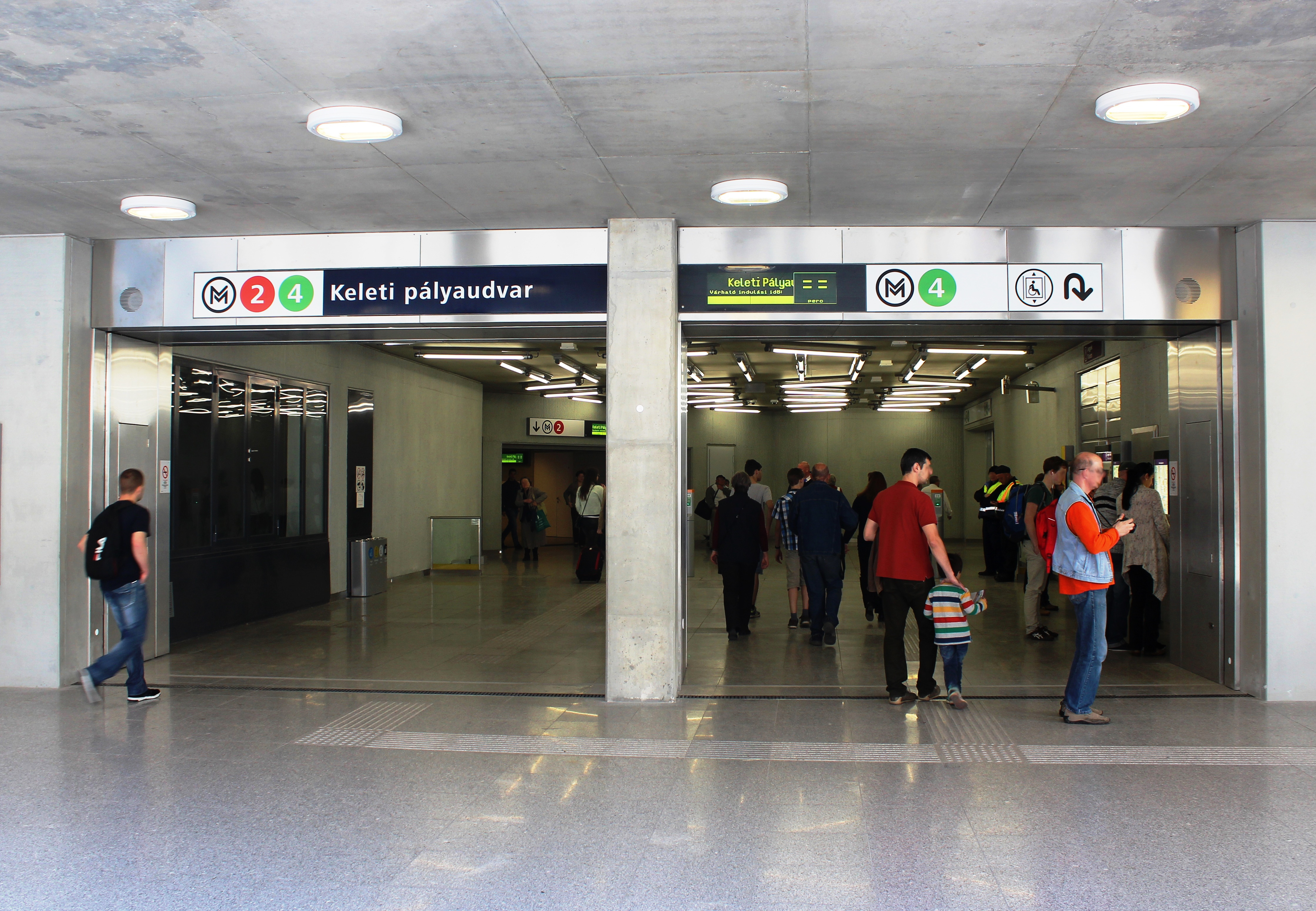 Entrance of M4 Keleti pályaudvar metro station